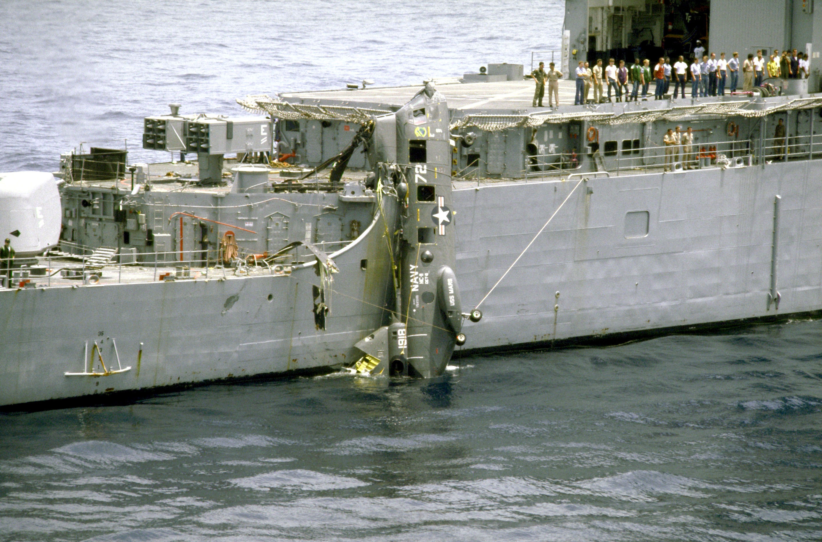 A U.S. Navy Boeing Vertol CH-46D Sea Knight (BuNo 151918) of Helicopter Combat Support Squadron 11 (HC-11) Det.6, hanging from the side of the destroyer USS Fife (DD-991) below the helicopter pad, tied off with support ropes. The helicopter was assigned to the combat stores ship USS Mars (AFS-1) crashed on takeoff due to an engine failure.